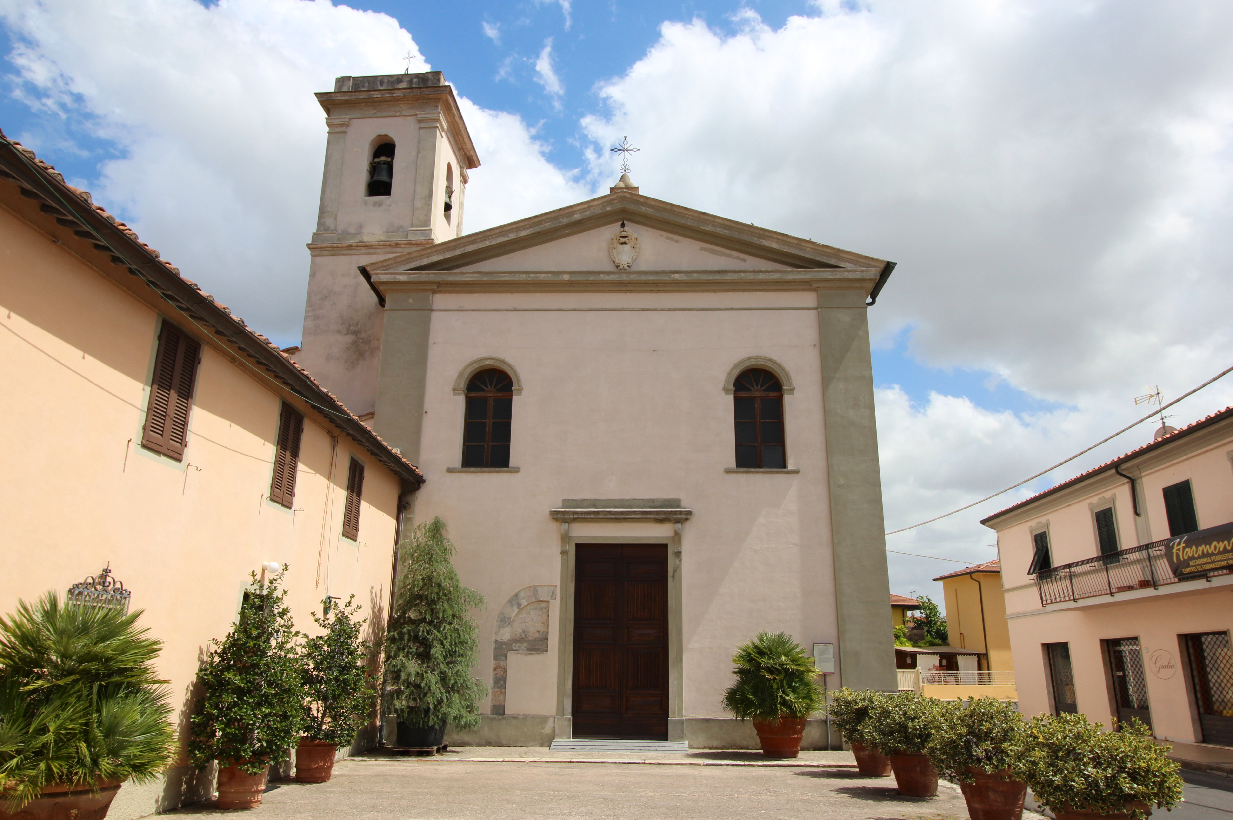 Church San Frediano, Vecciano, Province of Pisa, Tuscany, Italy